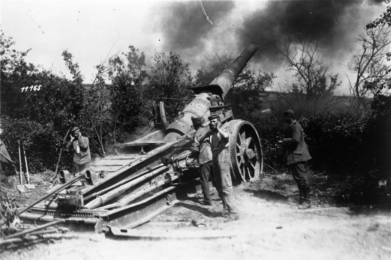 Information added by Wikimedia users.Photo shows a 17 cm SK L/40 i.R.L. (on wheeled carriage) in action : a 17 cm naval gun mounted on a wheeled carriage, used as a heavy field gun by Germany in World War I.